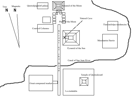 City layout of the ceremonial center of Teotihuacan showing its orientation relative to the cardinal points.